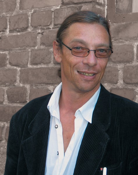 Personenaufnahme